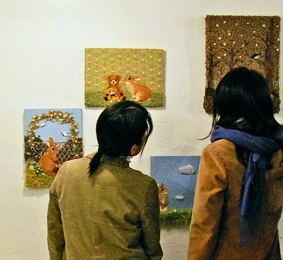 2008年11月に神田のAMULET